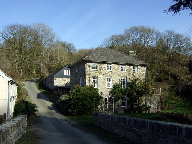 Monington mill Flour mill employing the water of the Nant Ceibwr to turn its wheel, up until it ceased operations in 1921. Now a private house.